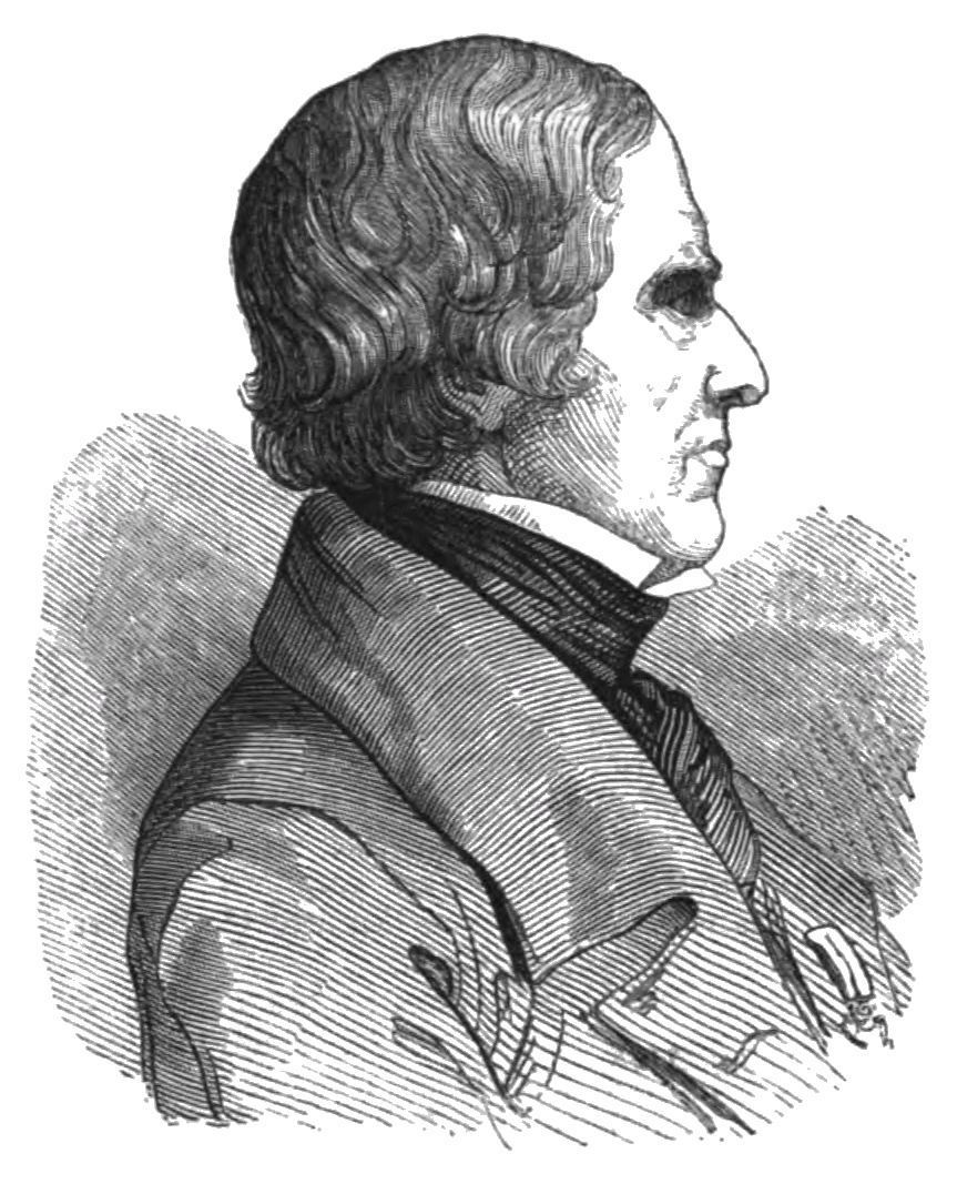 Leopold Kupelwieser (1796-1862), Austrian painter